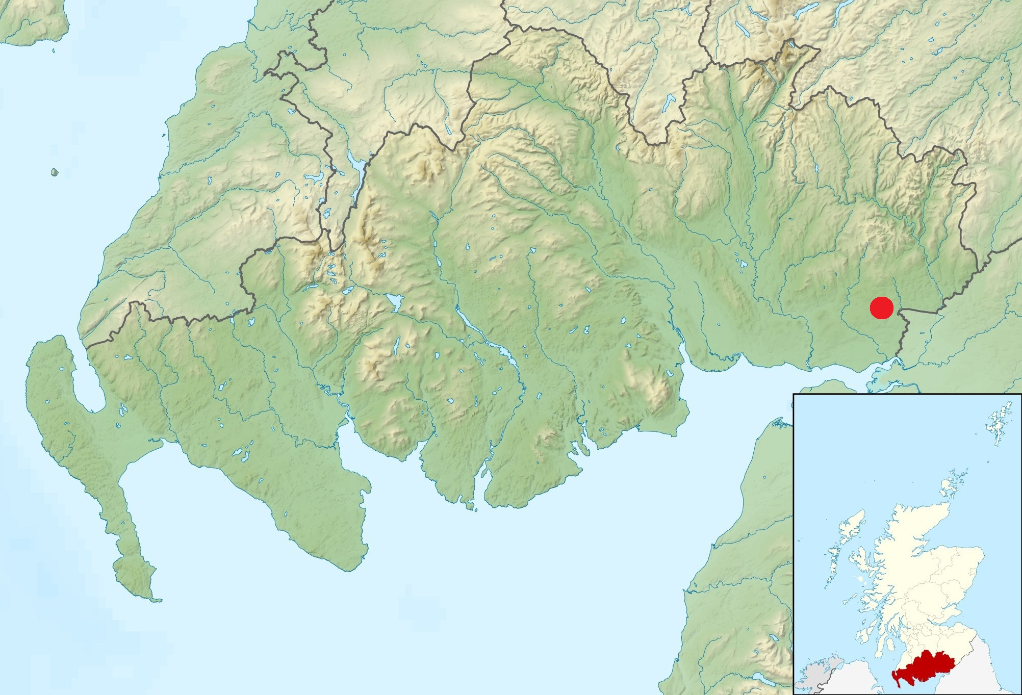 Gàidhlig: Mapa Chapelknowe, faisg air Canonbie.